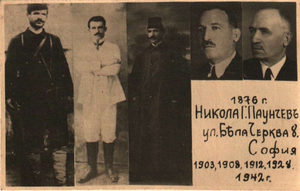 Nikola Paunchev